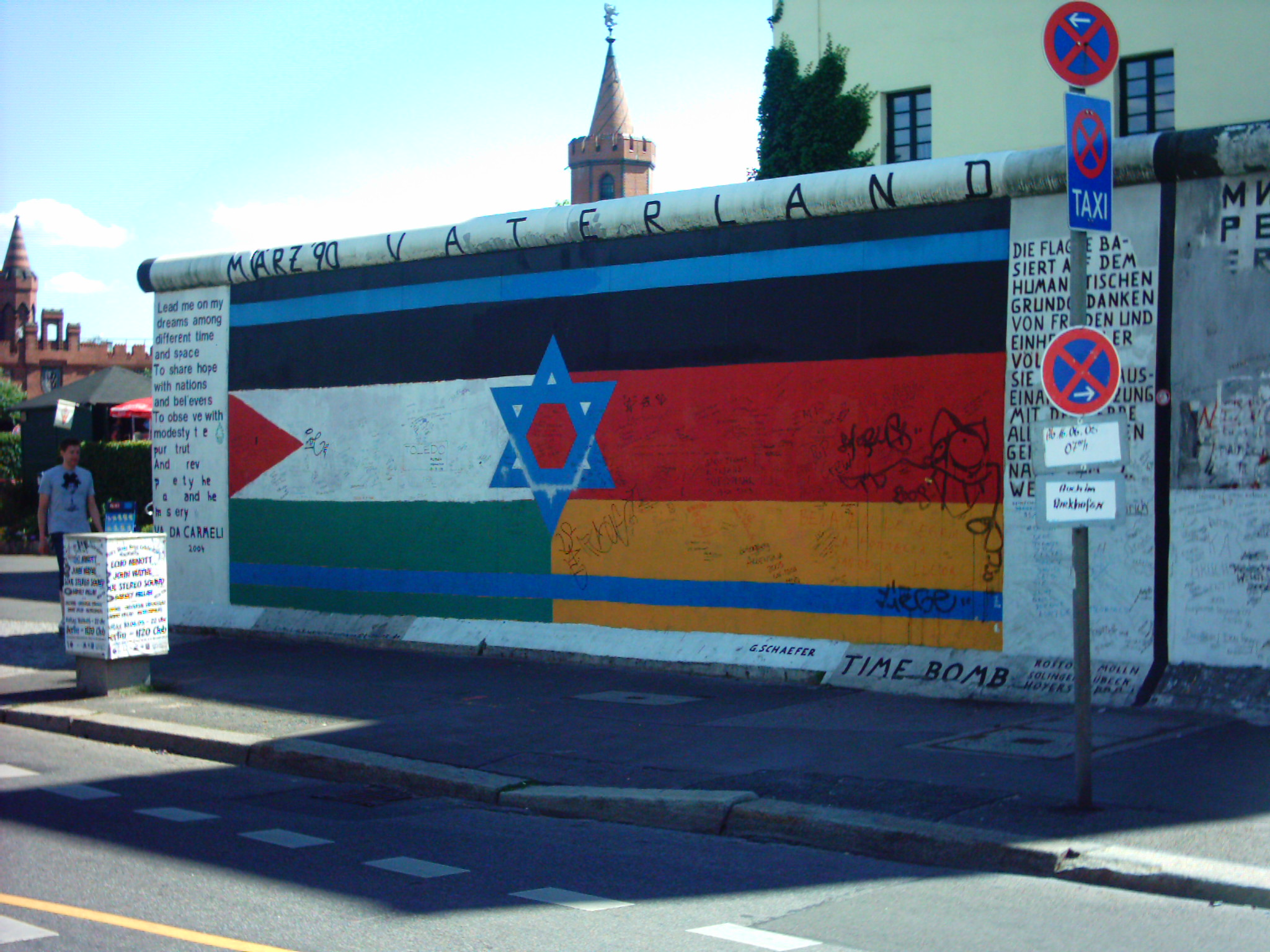 Berlin's East Side Gallery